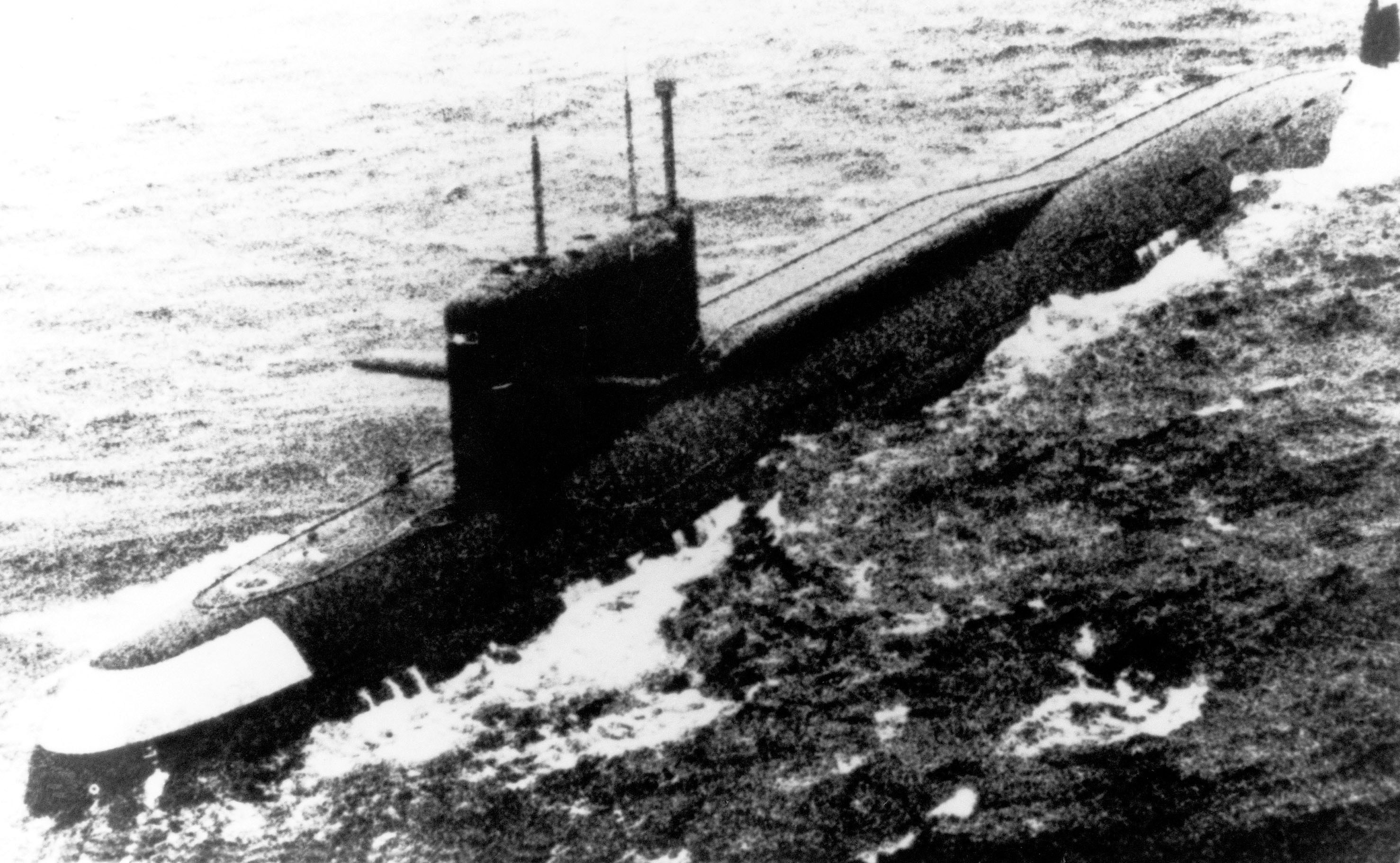 A port bow view of a Soviet Yankee class ballistic missile submarine underway.